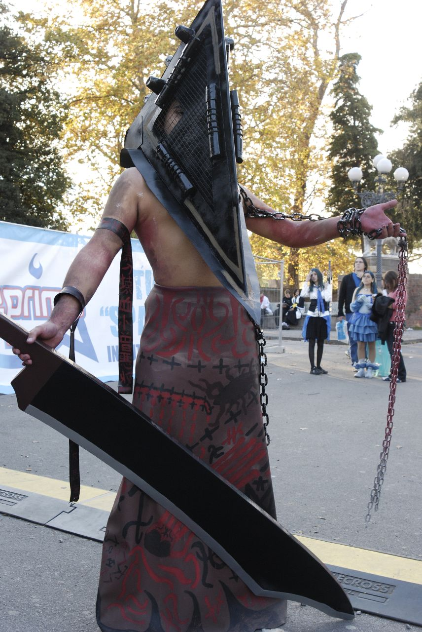 Cosplayer of Pyramid Head from Silent Hill at Lucca Comics & Games 2007.